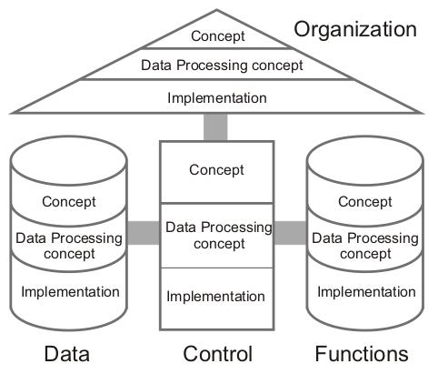 ARIS model, translating of File:Aris mod kl.png